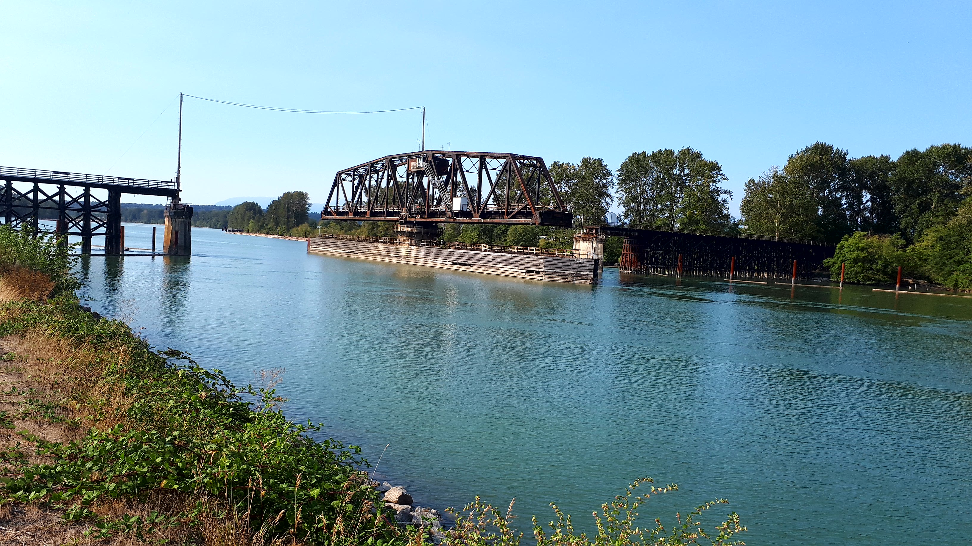 Photo of CNR Bridge